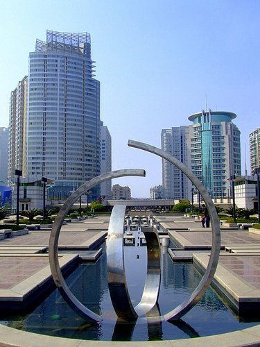 Image_Ruian_City